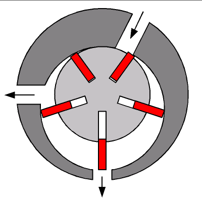 Created with Draw and The Gimp